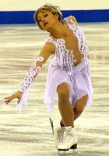 Galina Efremenko (Maniachenko) at the 2004 European Figure Skating Championships